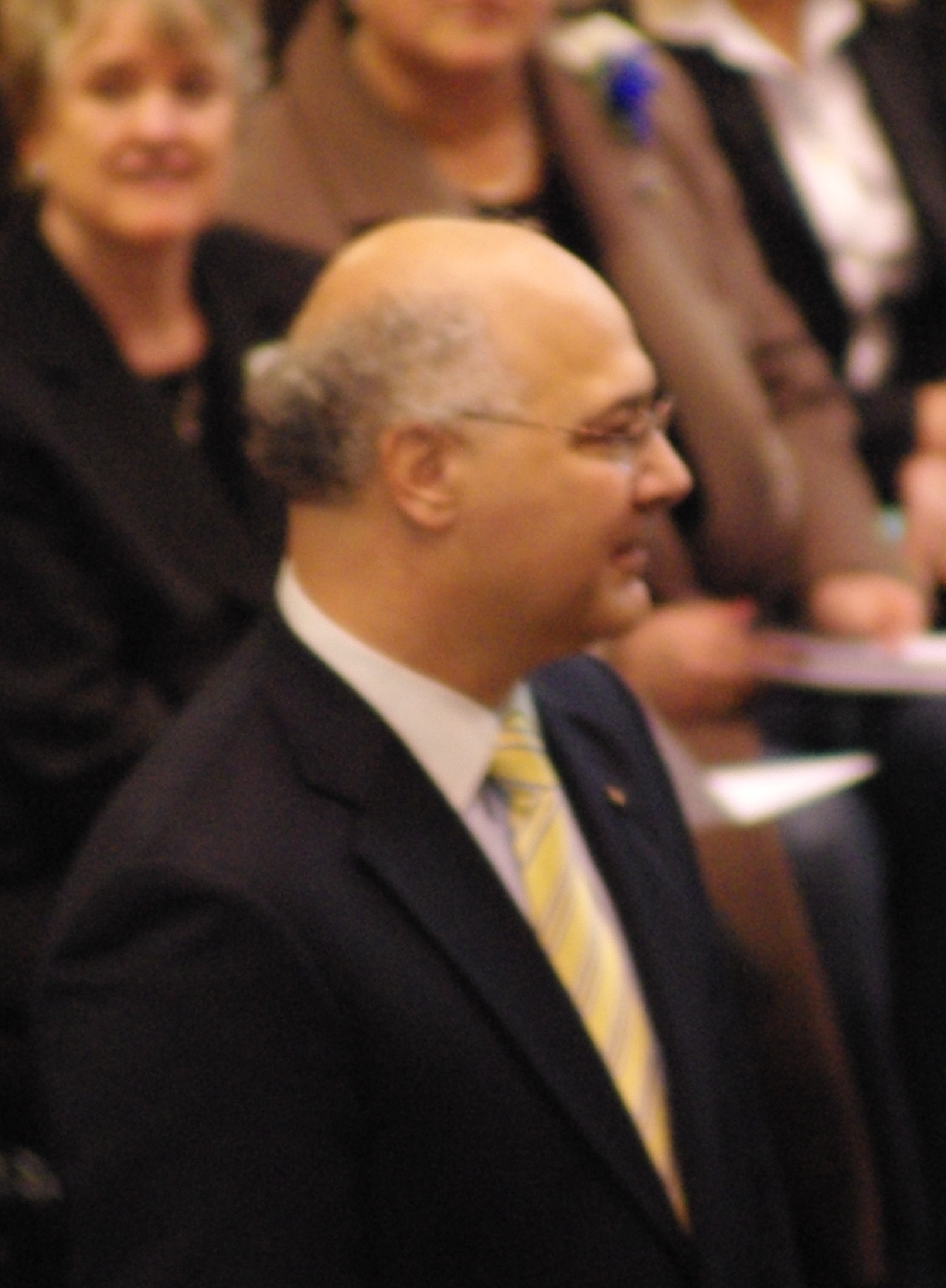 Brad_Avakian